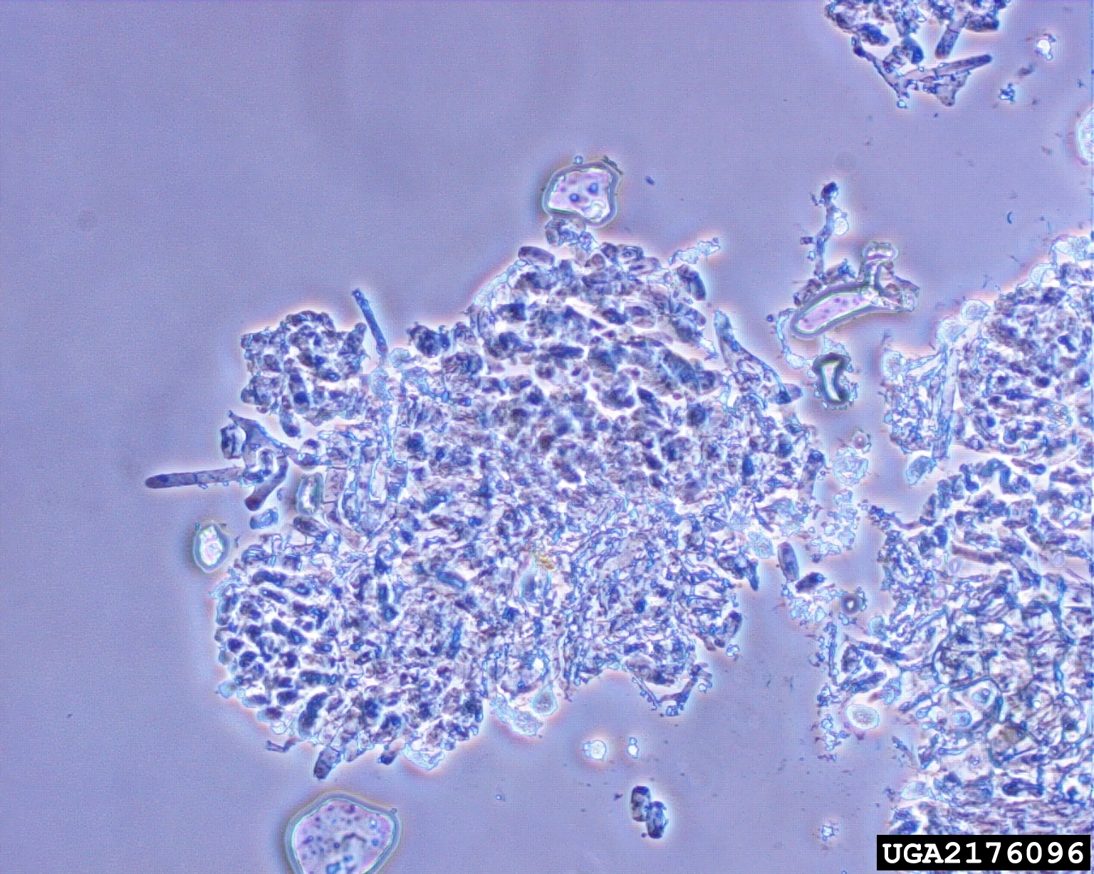 Rose powdery mildew conidia